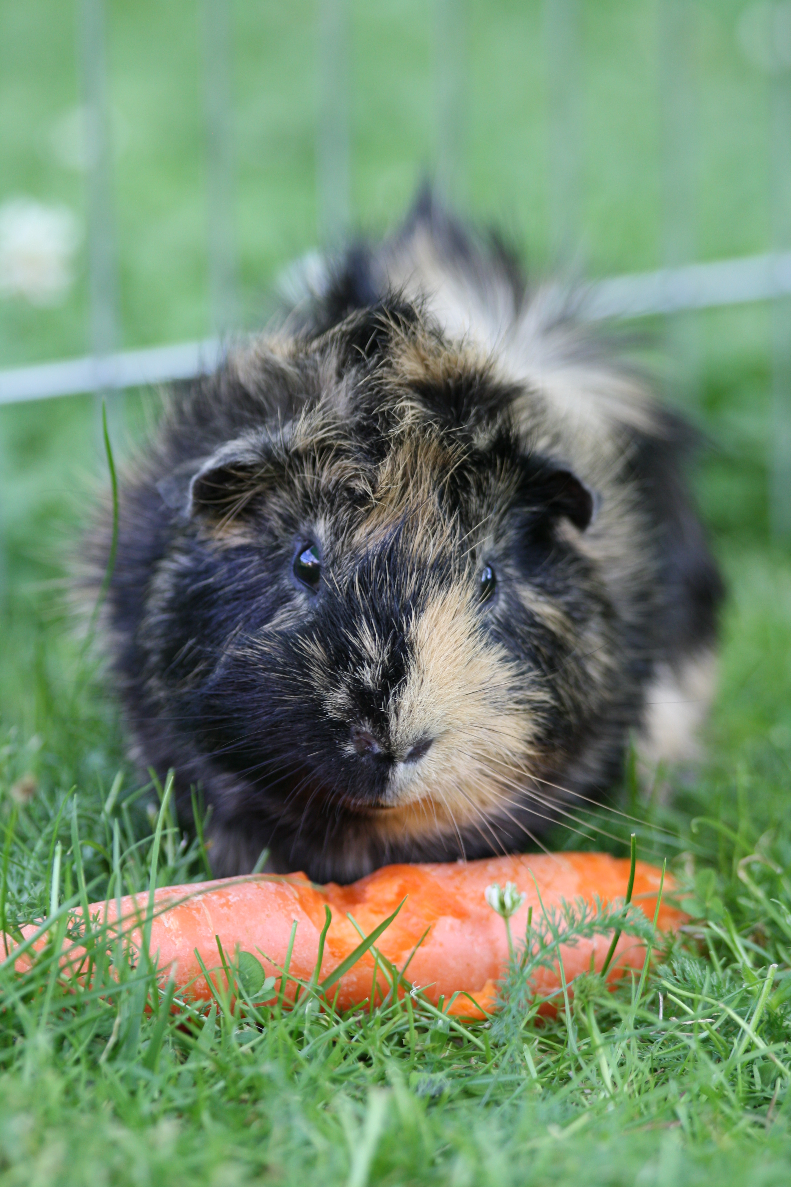 A guinea pig and its carrot. Ein Meerschweinchen und seine Möhre.